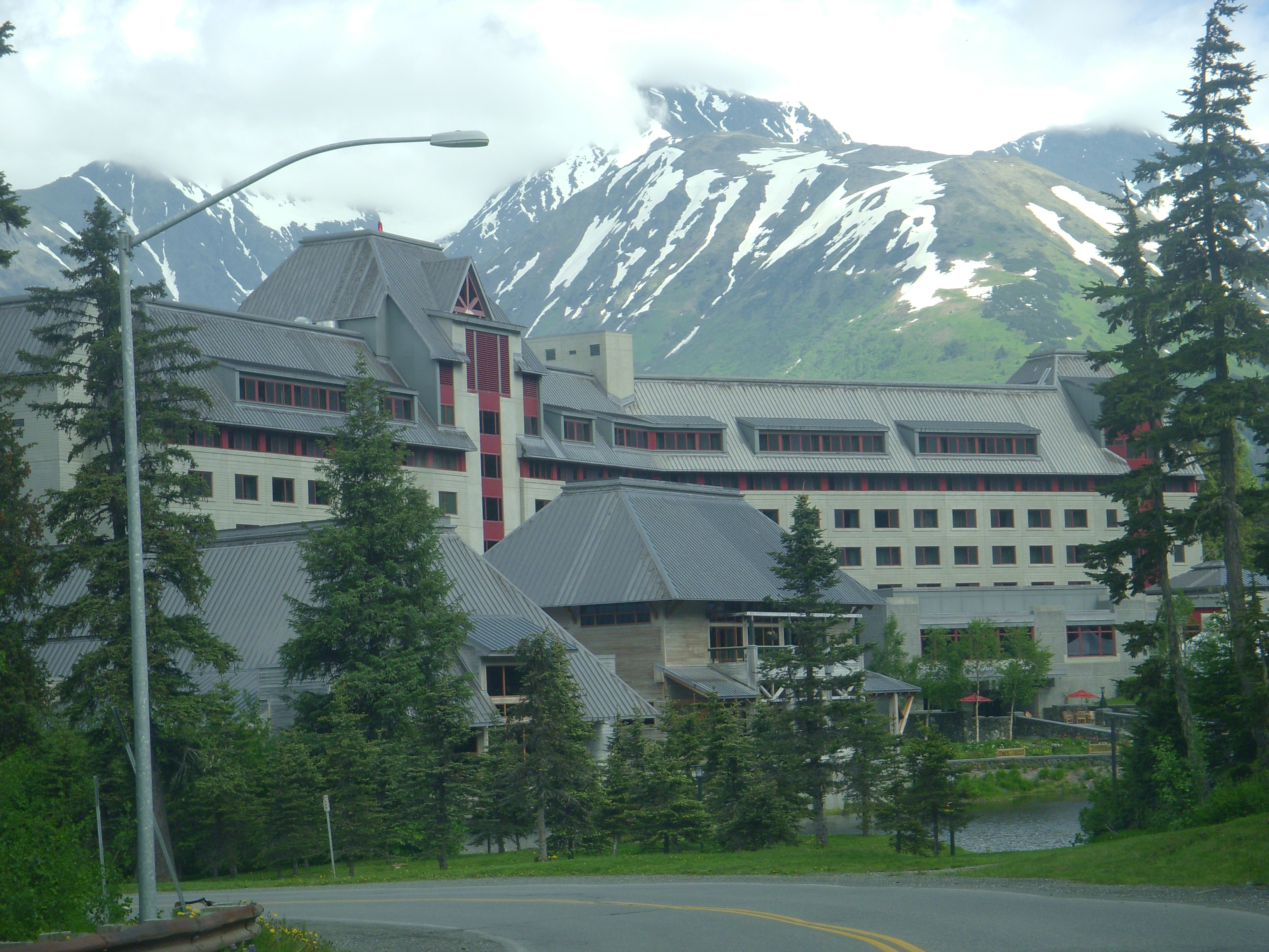 A photograph of The Alyeska Ski Resort from the main road